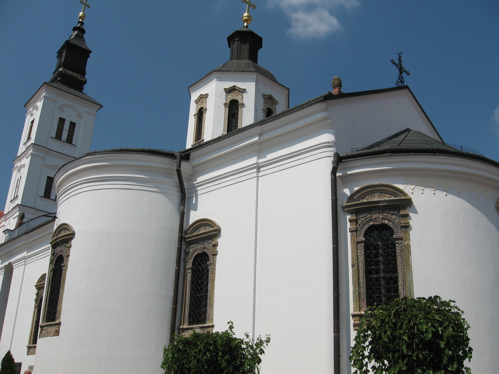 Monatery Krušedol - Serbia